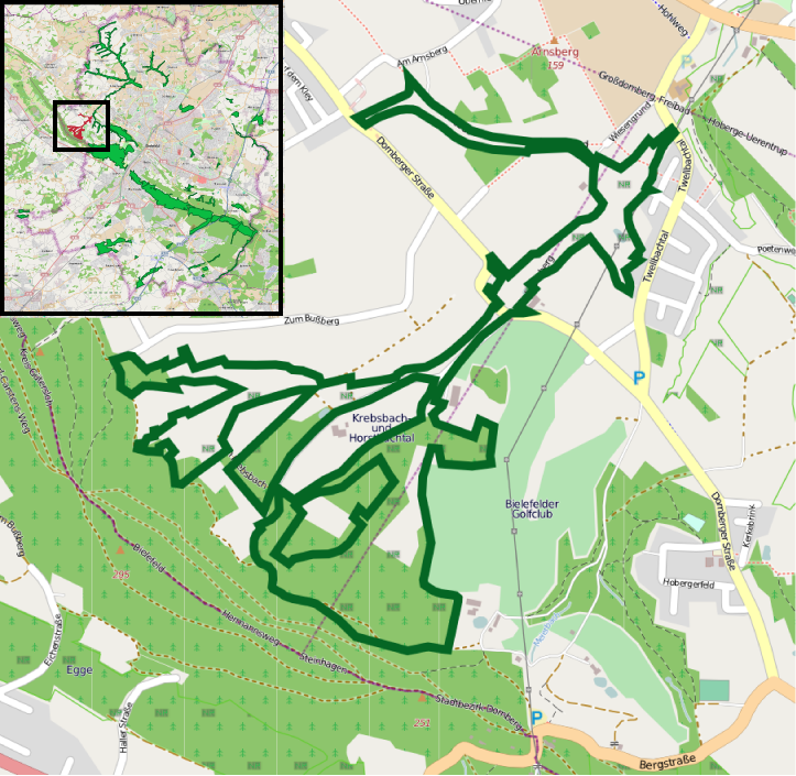 Bielefeld - Nature reserve Krebsbach- und Horstbachtal - overview mapNumber and borders of nature reserves are subject to frequent change. In order to facilitate reproduction of this map from openstreetmap, the following data is stored here: export boundaries: north: 52.044; west: 8.43; east: 8.47; south: 52.02; mapnik svg, scale 1:22.000 nature reserve boundary stroke weight 10.0; nature reserve stroke color: R 5, G 102, B 36; municipality border stroke weight: as found